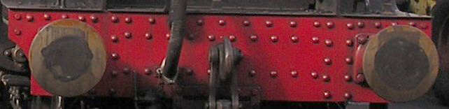 A close-up from a photo I took earlier today of a riveted bufferbeam on black five 45303.